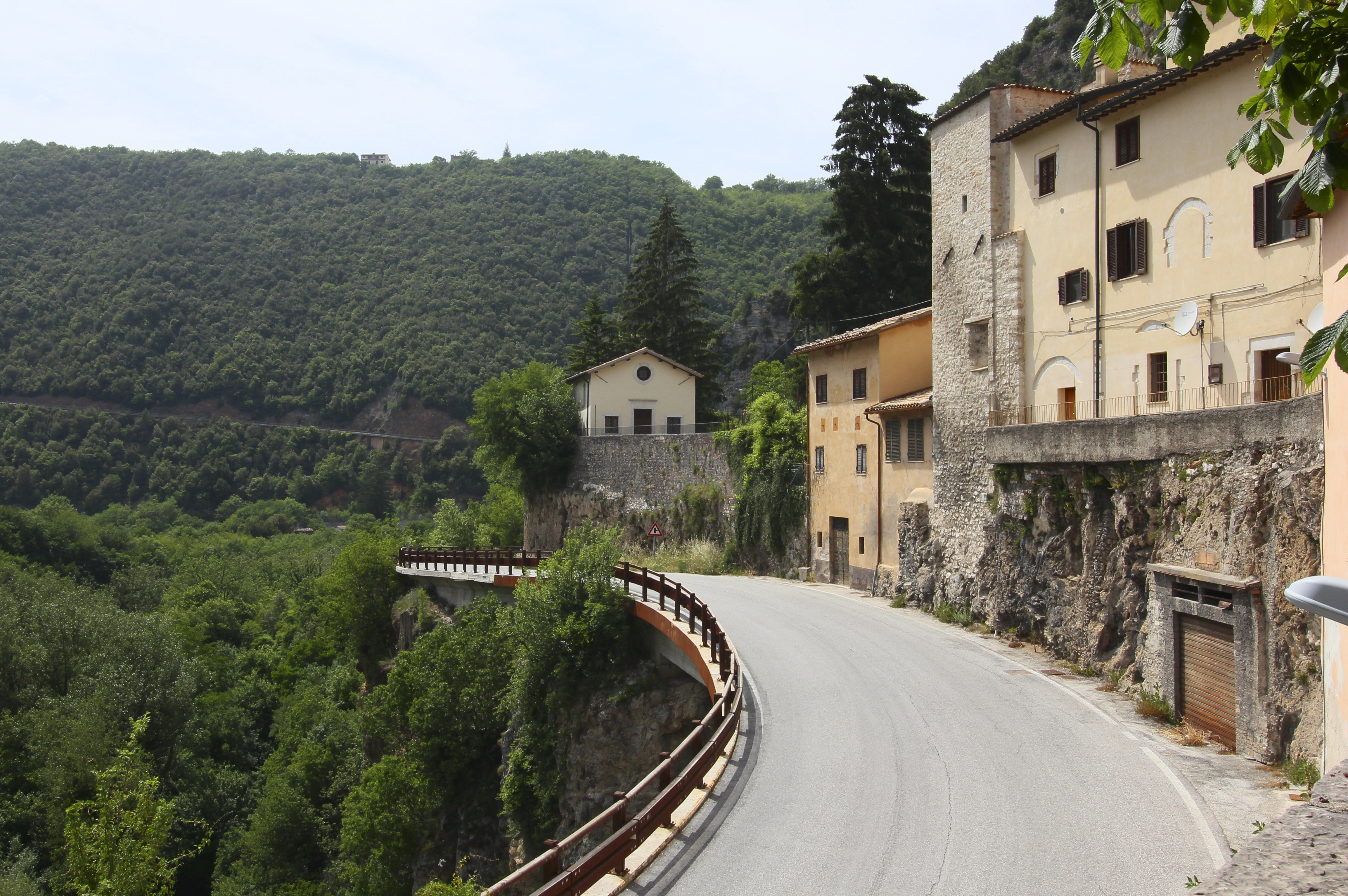 Triponzo, hamlet of Cerreto di Spoleto, Province of Perugia, Umbria, Italy